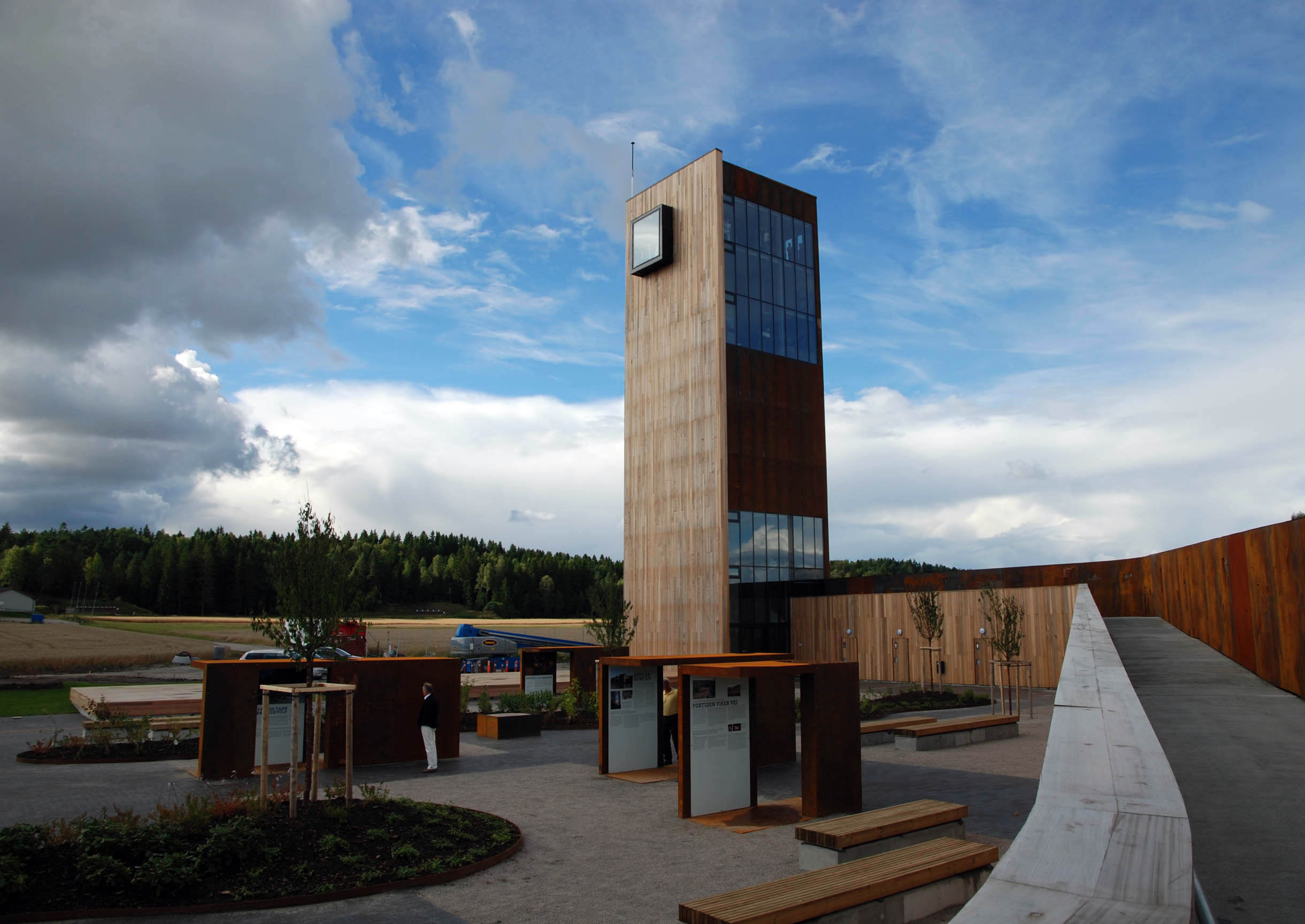 Solbergtårnet rasteplass is located at Skjeberg, in Sarpsborg, Norway and is a resting place for motorists using the European route E06. It was completed in 2010 and has won a local prize for good architecture.